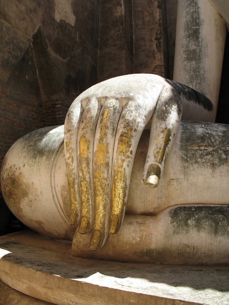 Phra Achana Hand. Wat Si Chum, Sukhothai National Historical Park.